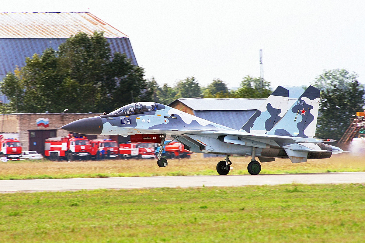 Sukhoi Su-30 at MAKS 2007